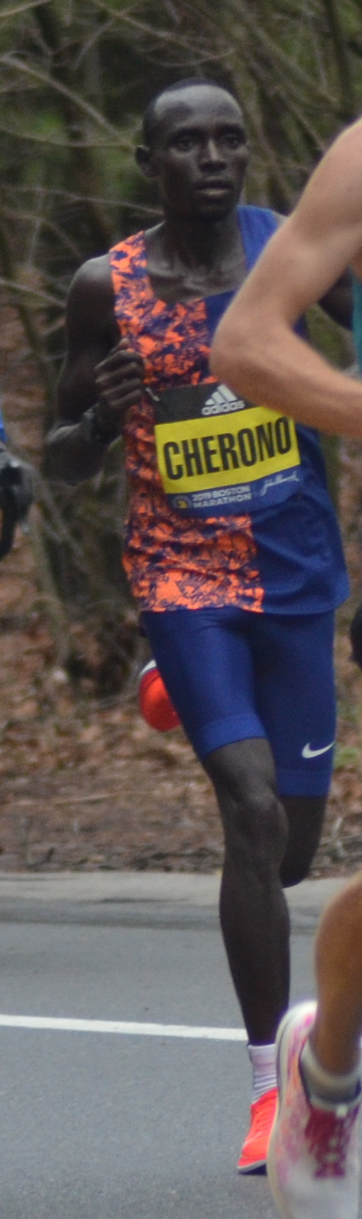 Lawrence Cherono near the half way mark of the 2019 Boston Marathon in which he won